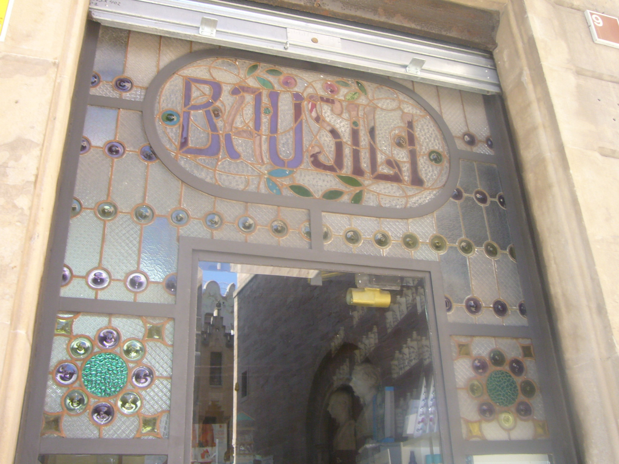 Farmàcia Bausili. Stained Glass door built in 1889.